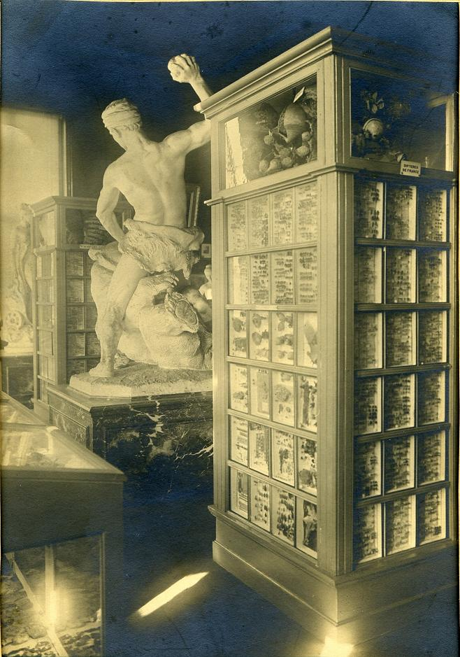 Charles Mengin, Les Exploits de David (oeuvre disparue), dans le Musée d'Elbeuf vers 1900